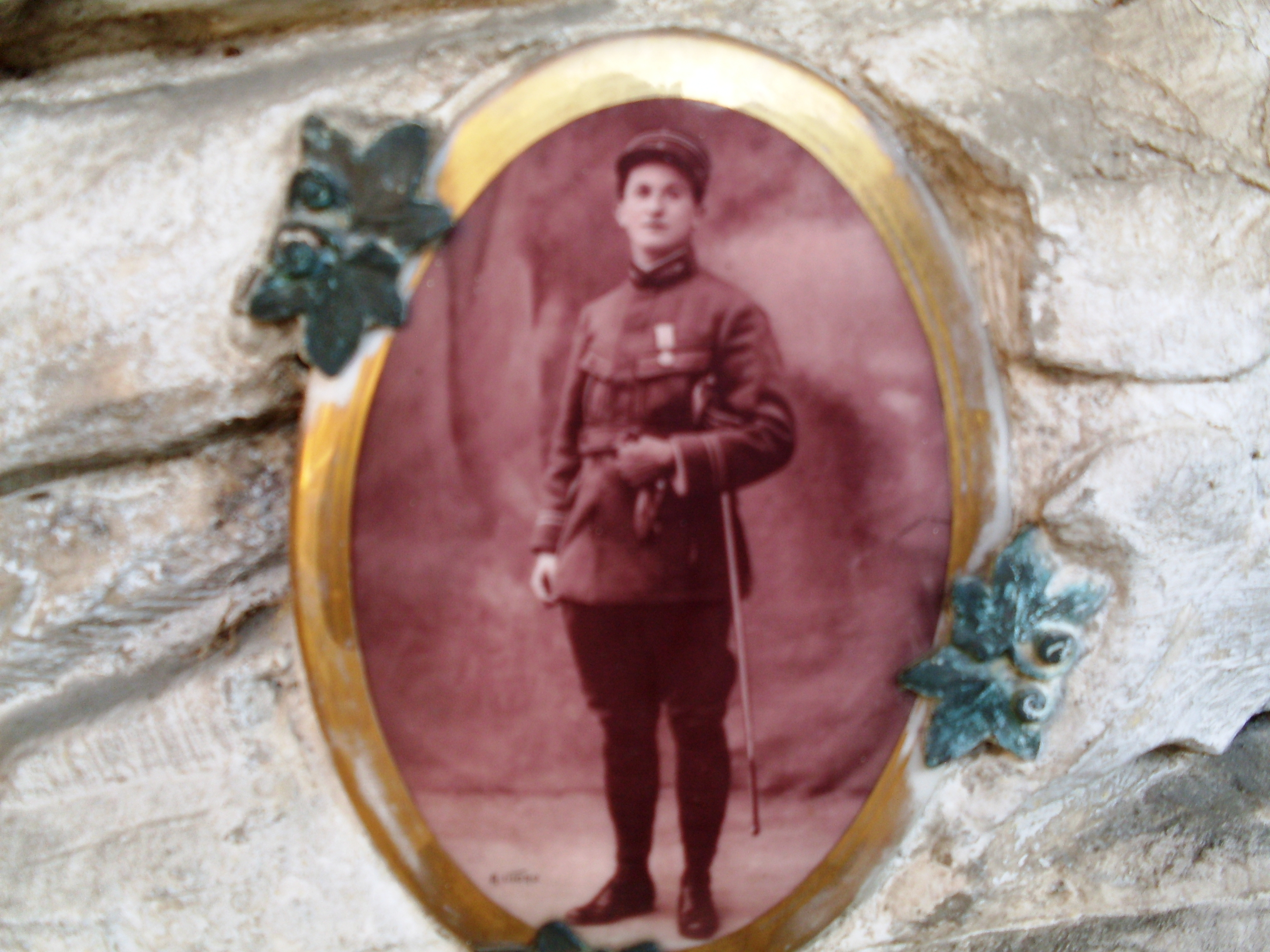 Duranti Lamberto-tomb_Tavernelle_AN ITALY - PHoto